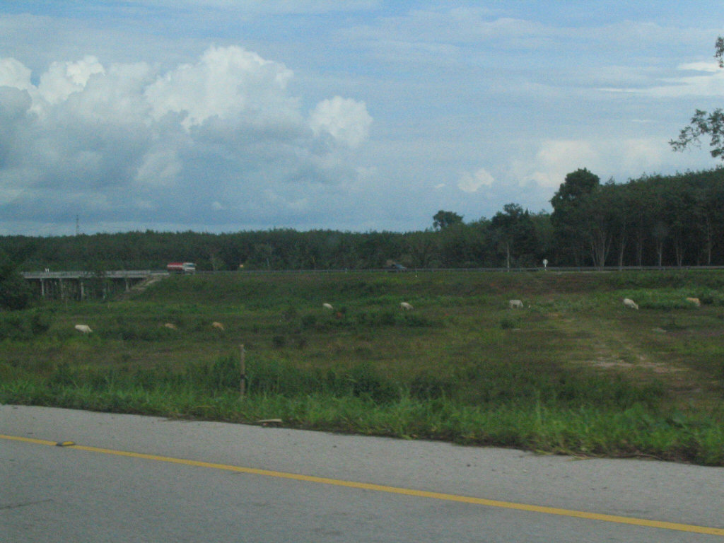 Wide median between each direction of Thailand Route 44